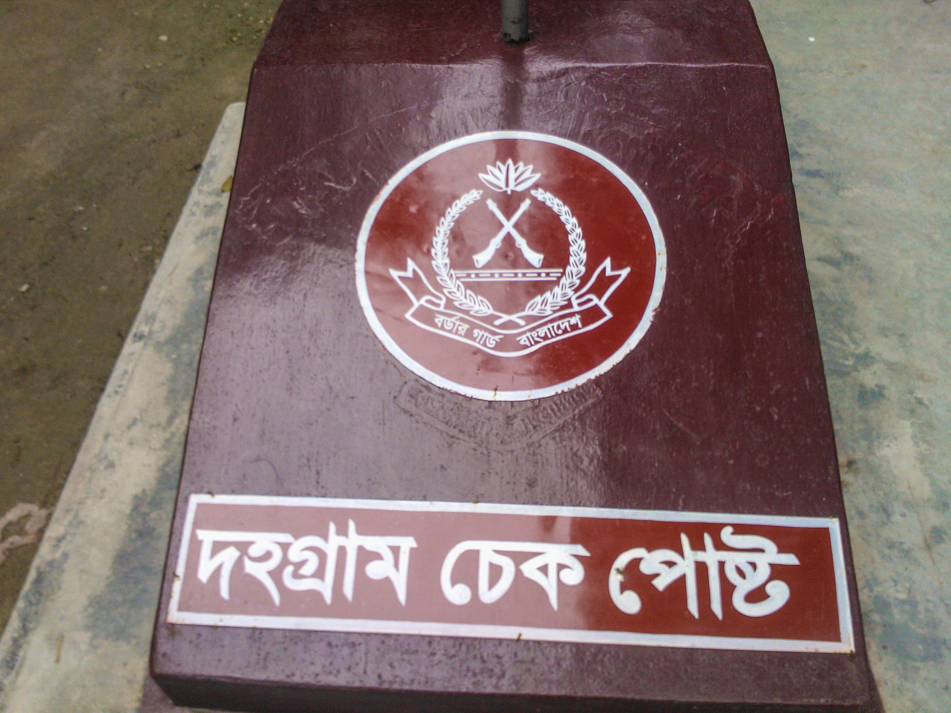 Dahgram BGB Check post, Patgram